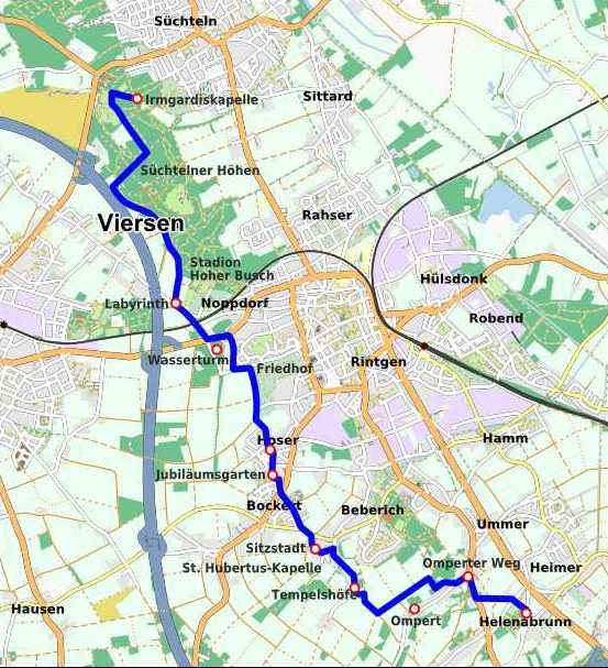 Irmgardis Path, Viersen, Germany